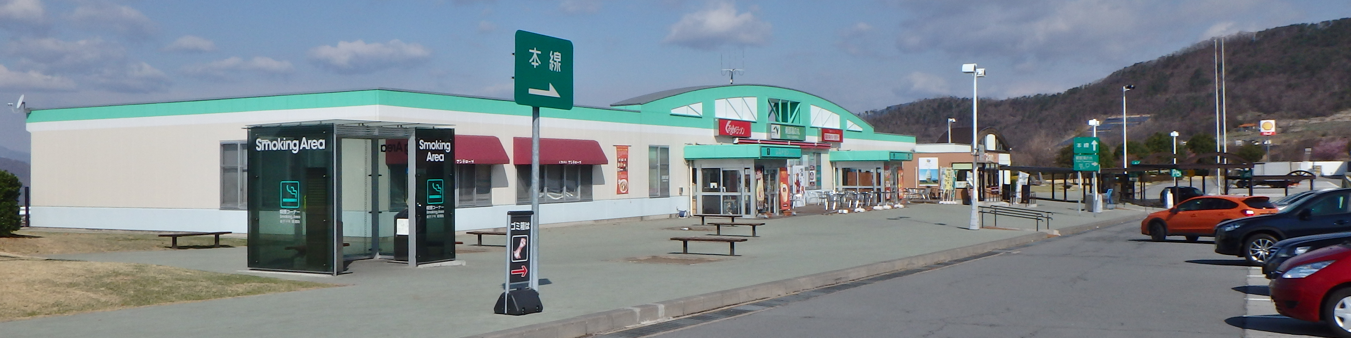 Tōbu-Yunomaru Service Area for Jōetsu Nagano prefecture,Japan